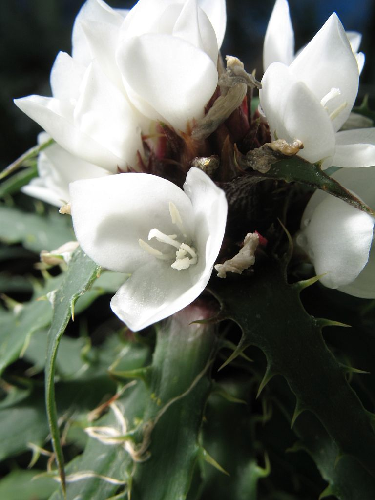 Cryptanthus (Rokautskyia) microglazioui in cultivation at the Botanical Garden of Heidelberg, Germany.